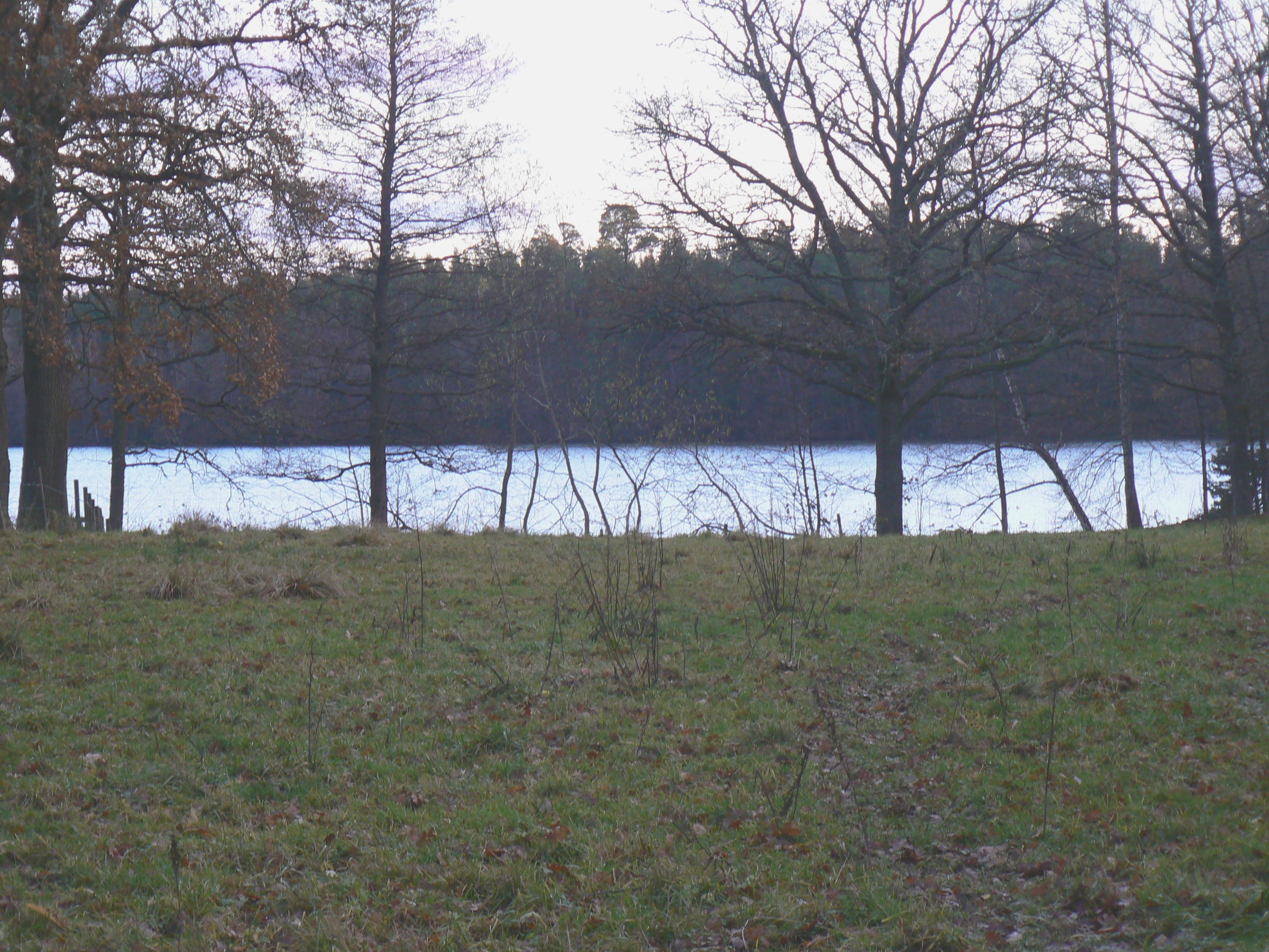 Photo of Svennebysjön, a small inland lake in Östergötland, Sweden